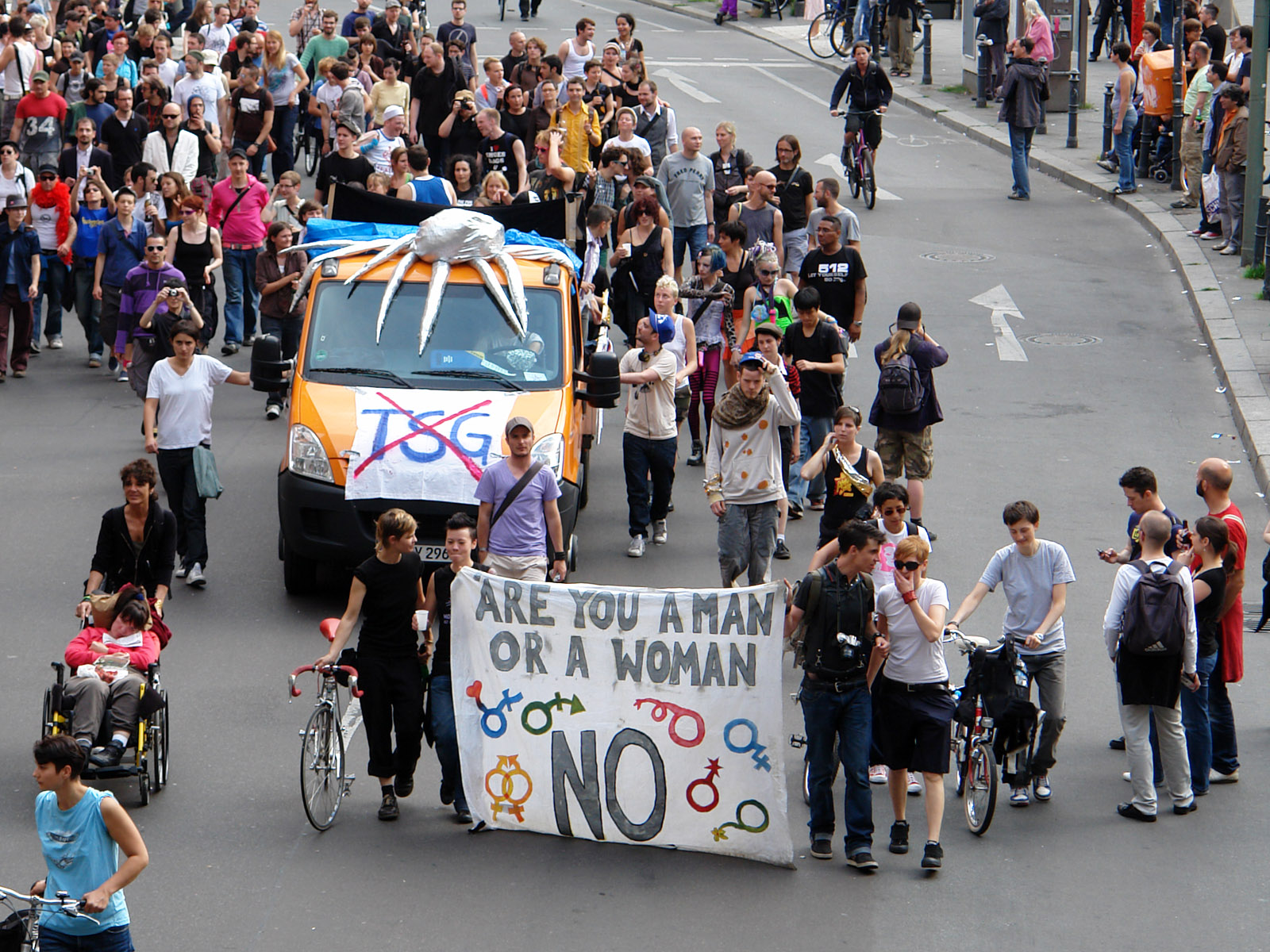 Alternative Pride March (Transgenialer CSD) in Berlin, 2009.